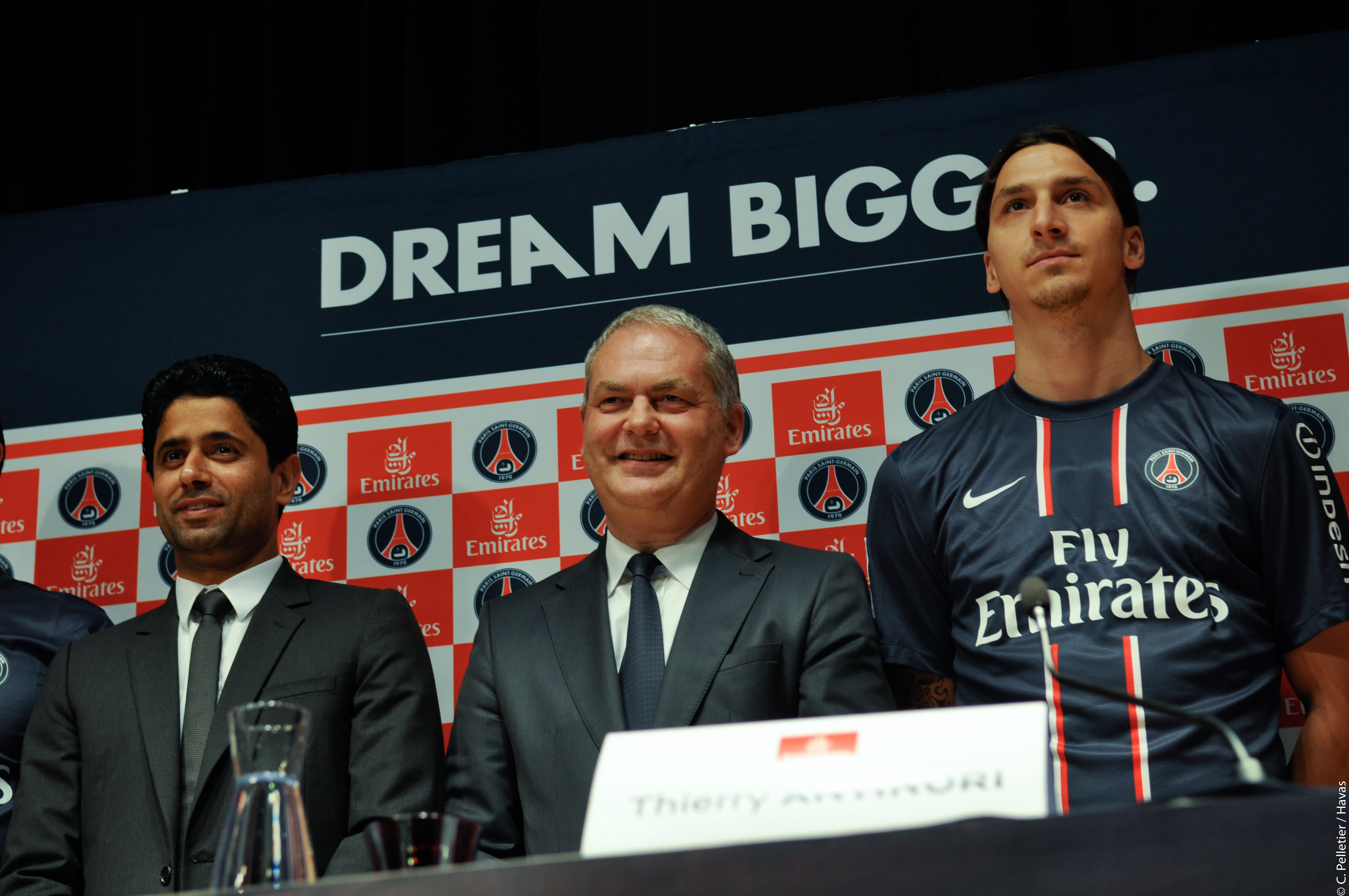 Nasser Al-Khelaïfi, president of Paris Saint-Germain posing with Emirates Airlines vice president Thierry Antinori and striker Zlatan Ibrahimovic.